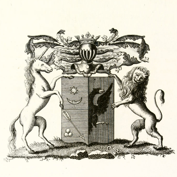 Coat of Arms of Venevitintov